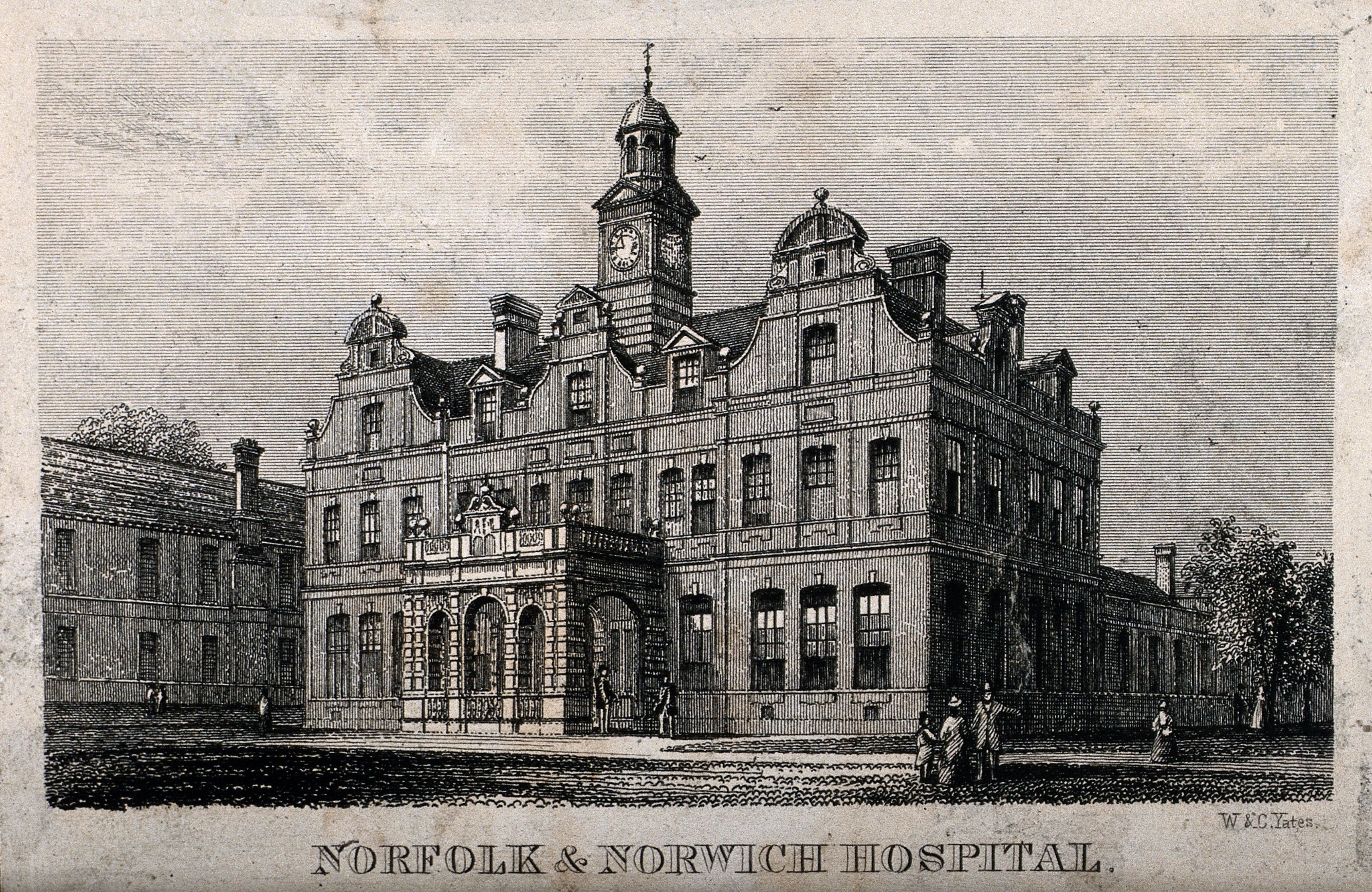 Norfolk and Norwich Hospital, Norwich. Line engraving by W. & C. Yates. Iconographic Collections Keywords: W. & C. Yates.